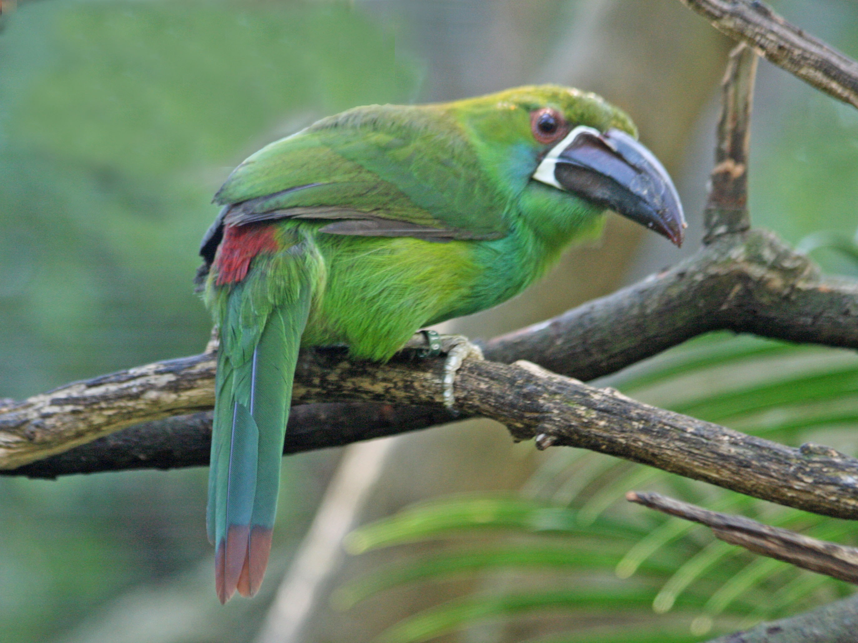 Crimson-rumped Toucanet (Aulacorhynchus haematopygus) - San Diego Zoo